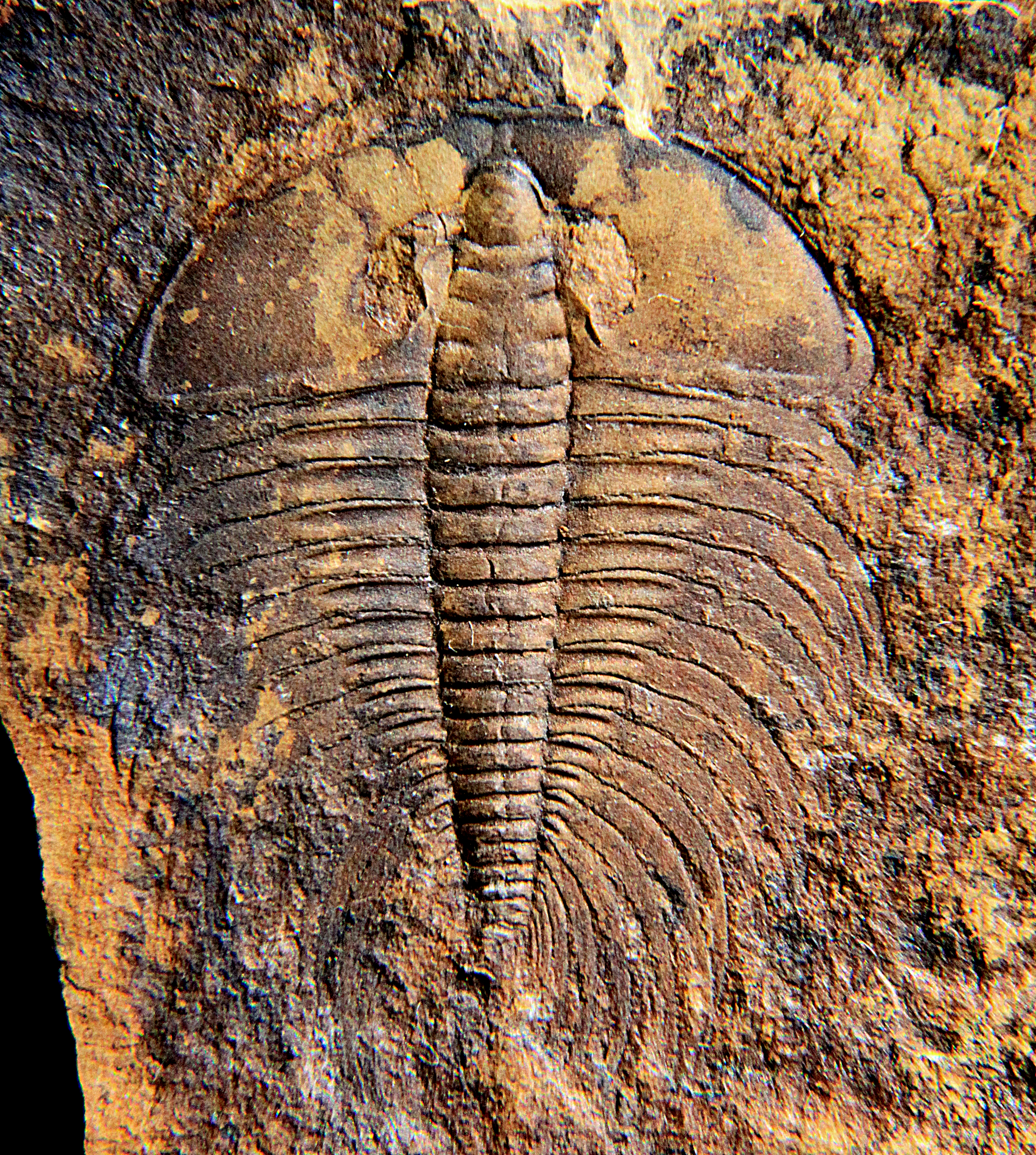 A Nevadia weeksi trilobite, Order Redlichiida, superfamily "Nevadioidea", 35mm along the axis, collected at the Poleta f Esmeralda County, Nevada, USA, from the Lower Cambrian (Botomian)